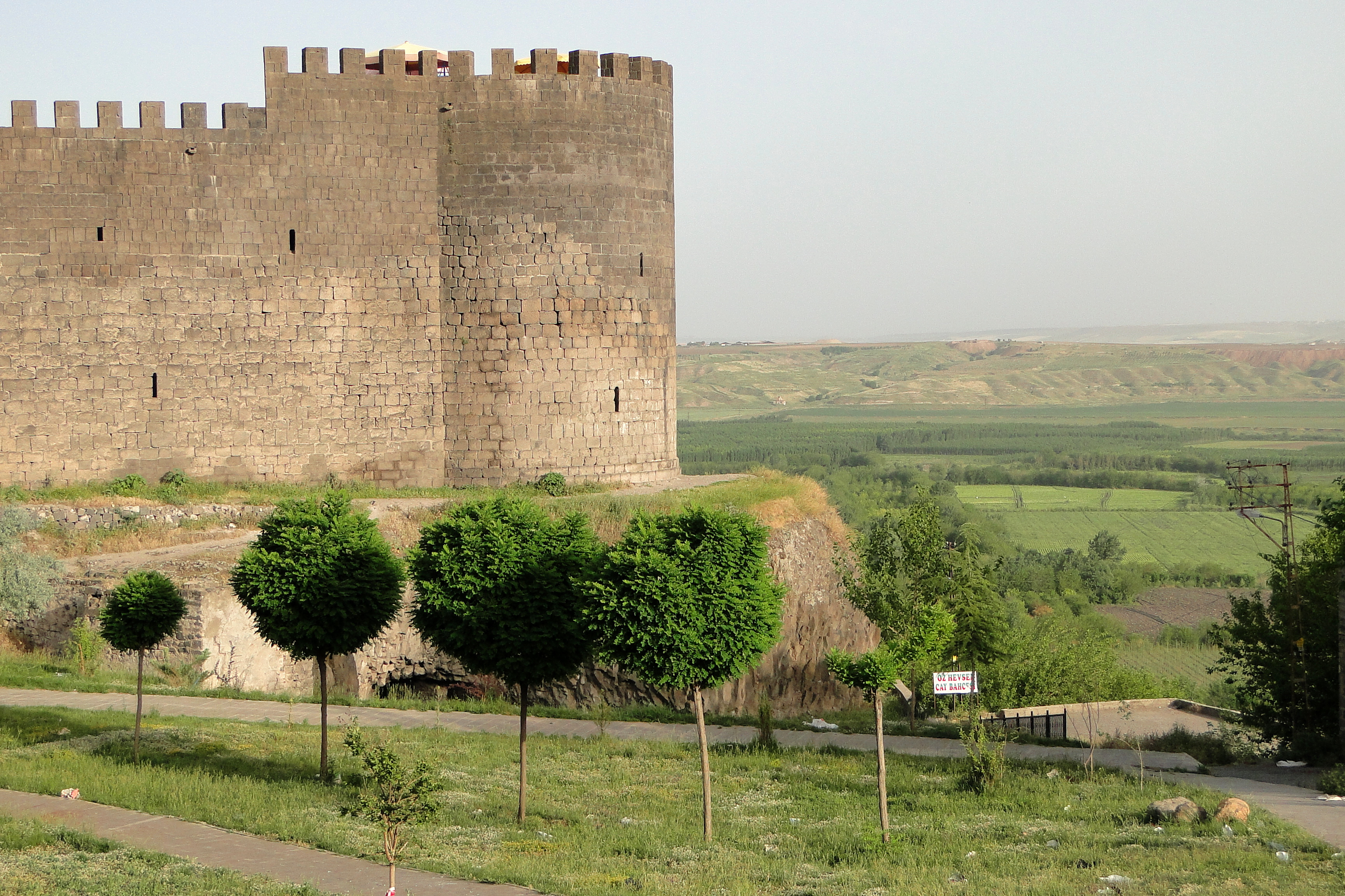 City Wall and Battlements - Diyarbakir - Turkey